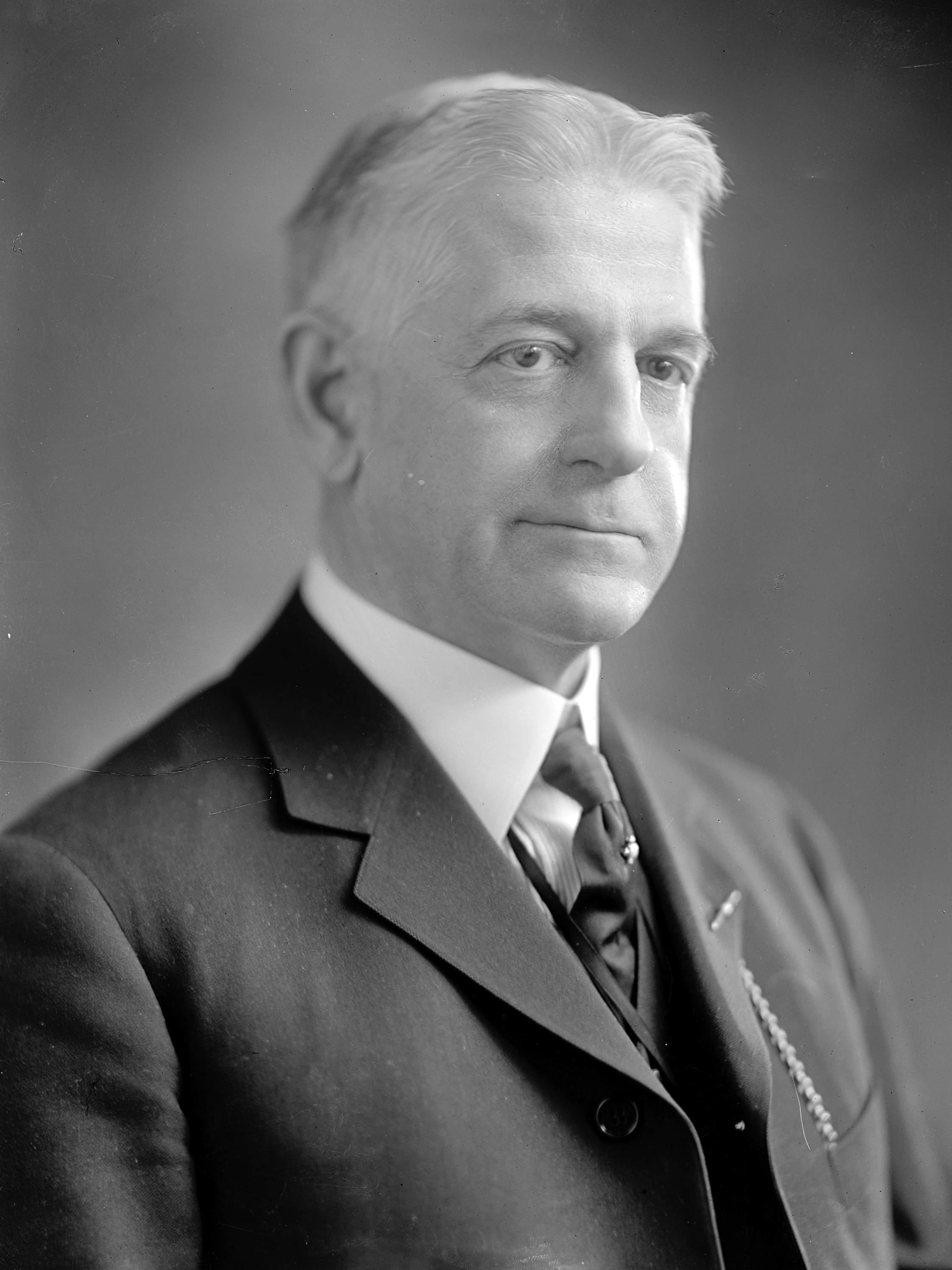 James S. Parker, US Representative from New York